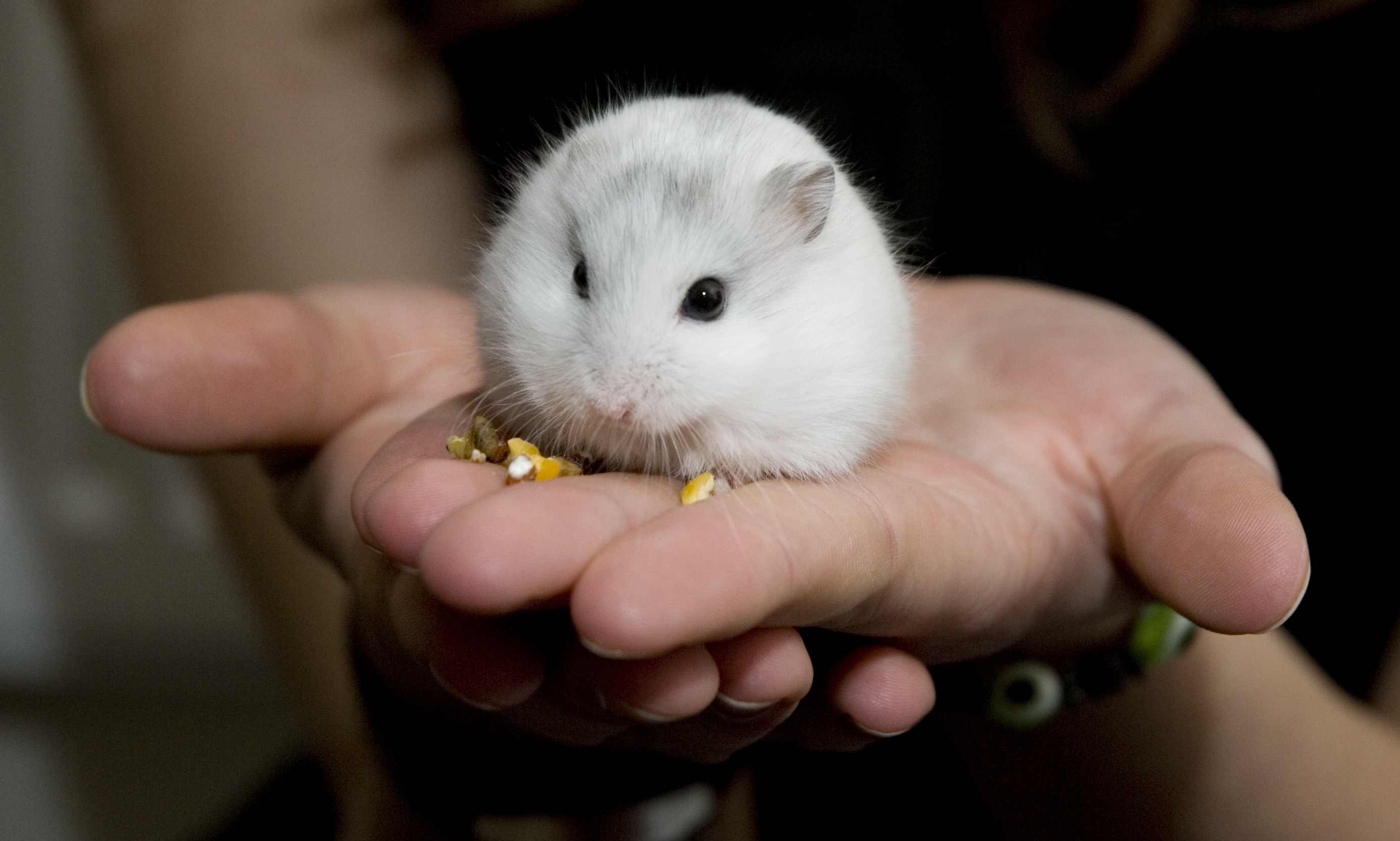 A Winter White Russian Dwarf Hamster named Wolfram, fur colour "agouti pearl".